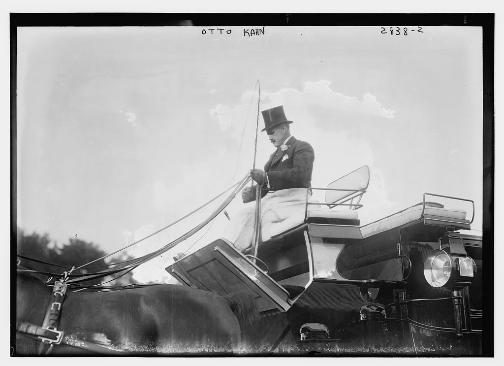 Otto Kahn (LOC) Bain News Service,, publisher. Otto Hermann Kahn on September 25, 1913 at the Morristown Field Club [between ca. 1910 and ca. 1915] 1 negative : glass ; 5 x 7 in. or smaller. Notes: Title from data provided by the Bain News Service on the negative. Photo shows Otto Hermann Kahn (1867–1934), a banker, philanthropist, and arts patron. (Source: Flickr Commons project, 2010) Forms part of: George Grantham Bain Collection (Library of Congress). Format: Glass negatives. Repository: Library of Congress, Prints and Photographs Division, Washington, D.C. 20540 USA, General information about the Bain Collection is available at Persistent URL: Call Number: LC-B2- 2838-2 Contents 1 Source 2 Reference 3 Licensing 4 Original upload log Reference (September 26, 1913). "Annual Exhibition of Horses Develops Keen Competition in Many Classes.". New York Times. Retrieved on 2010-01-28. "Amateurs were in the lead yesterday at the opening session of the sixteenth annual horse show of the Morristown Field Club, which was held on the organization's enclosure at Morristown, N.J. With stands filled and the parking spaces preempted with scores of automobiles the affair quite kept up its former standing as a medium to attract hundreds of people well known in society."